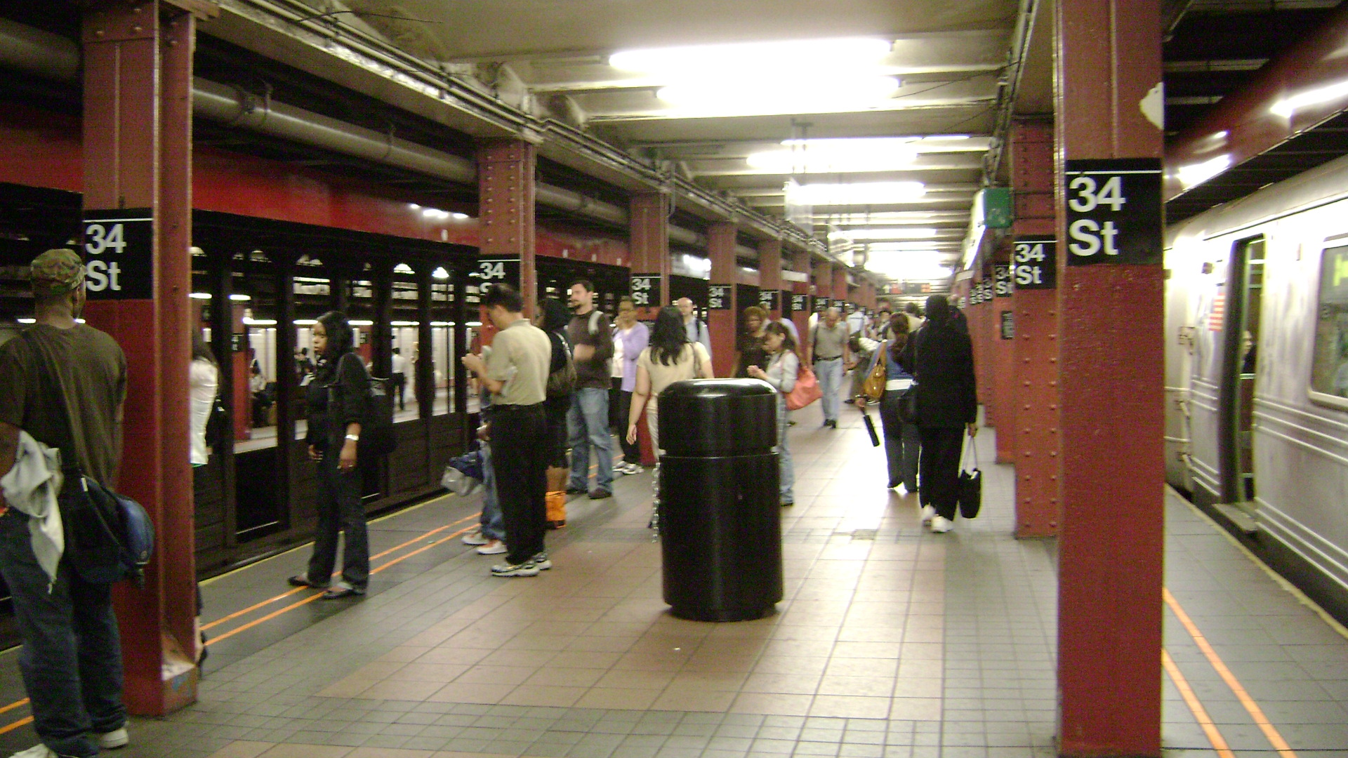 The 34th Street-Herald Square subway station.